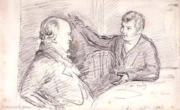 William Blake in Conversation with the Astrologer John Varley - the Right - by John Linnell (cropped, contrast increased)